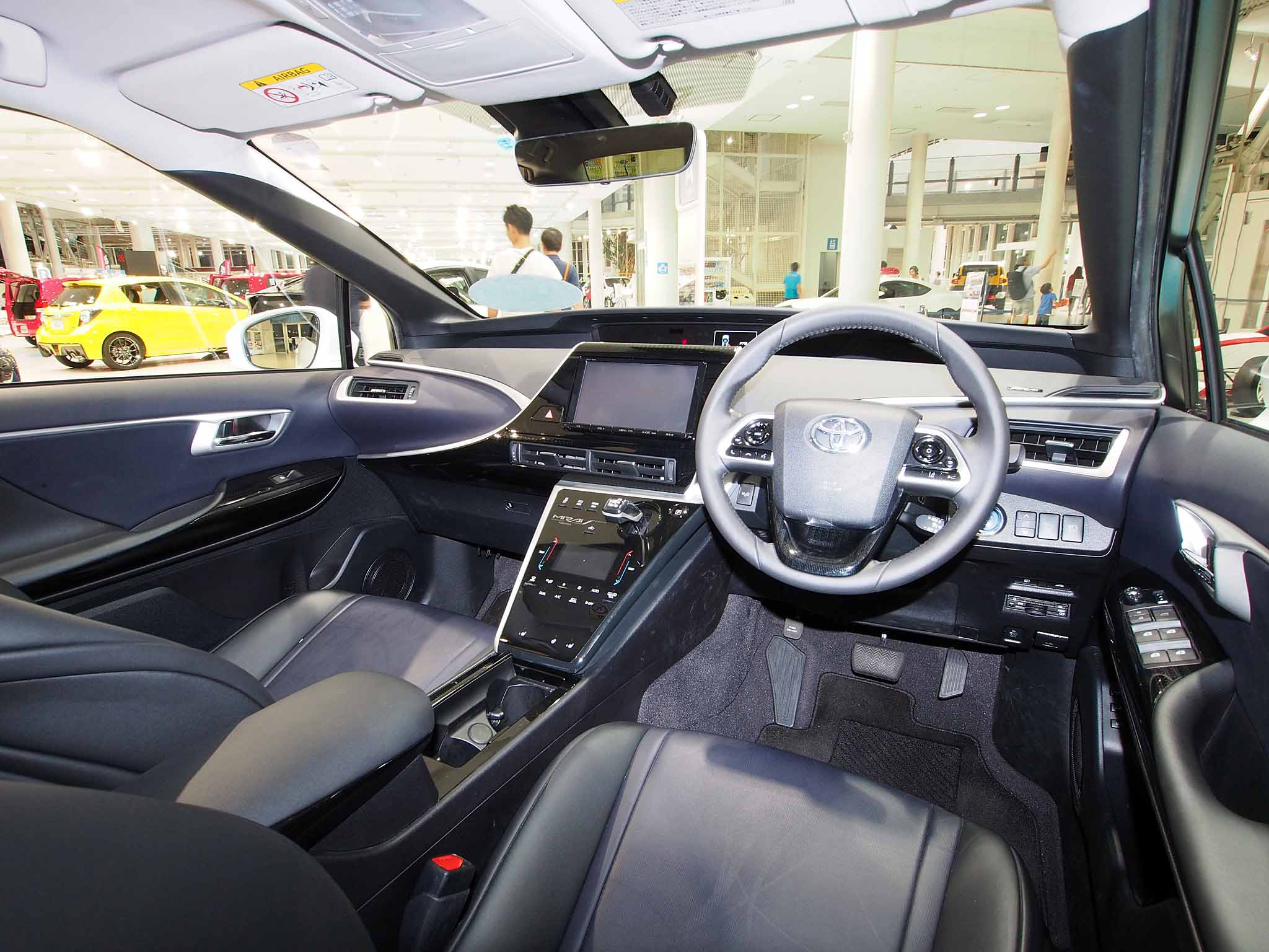 Cockpit of Toyota Mirai. Model: ZBA-JPD10 Displayed at MEGAWEB